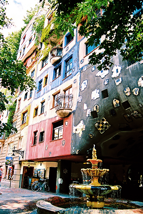 Austria, Vienna, Hundertwasserhaus